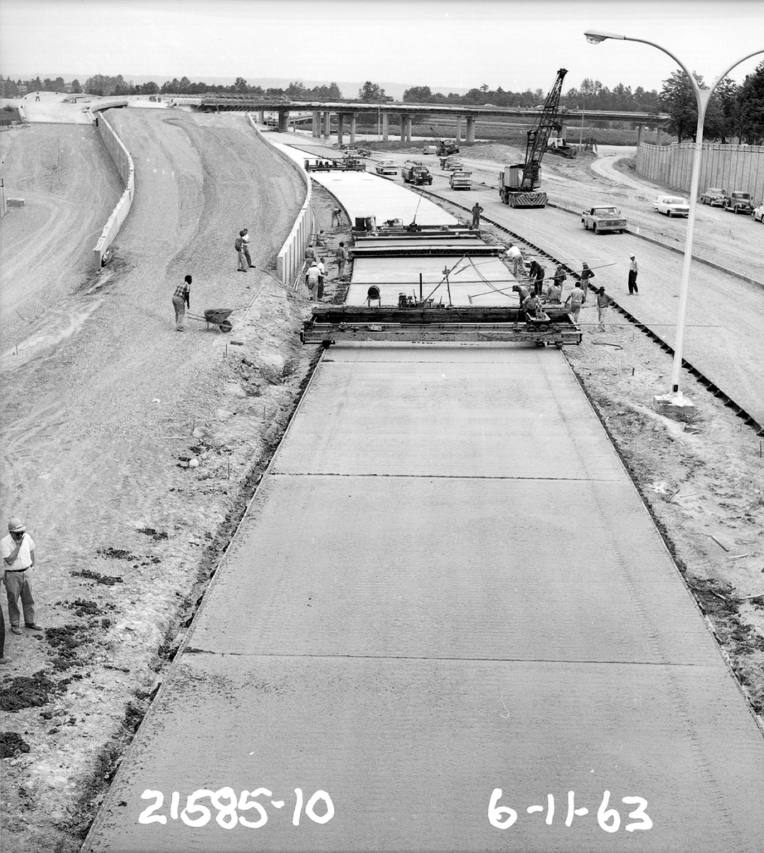 Washington State Route 520 under construction, 1963.